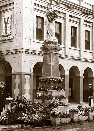 Memorial as it appeared in 1938.